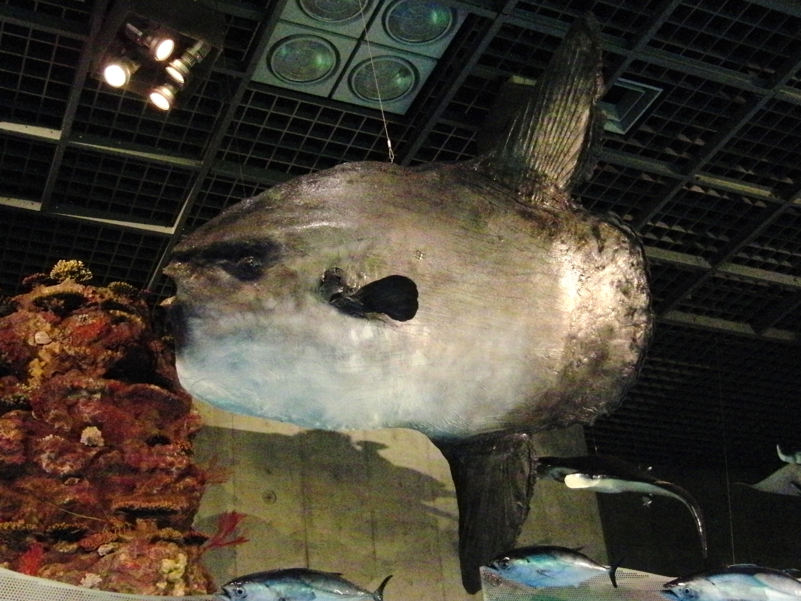 Stuffed specimen of Mola mola (Ocean sunfish). Exhibit in the National Museum of Nature and Science, Tokyo, Japan.